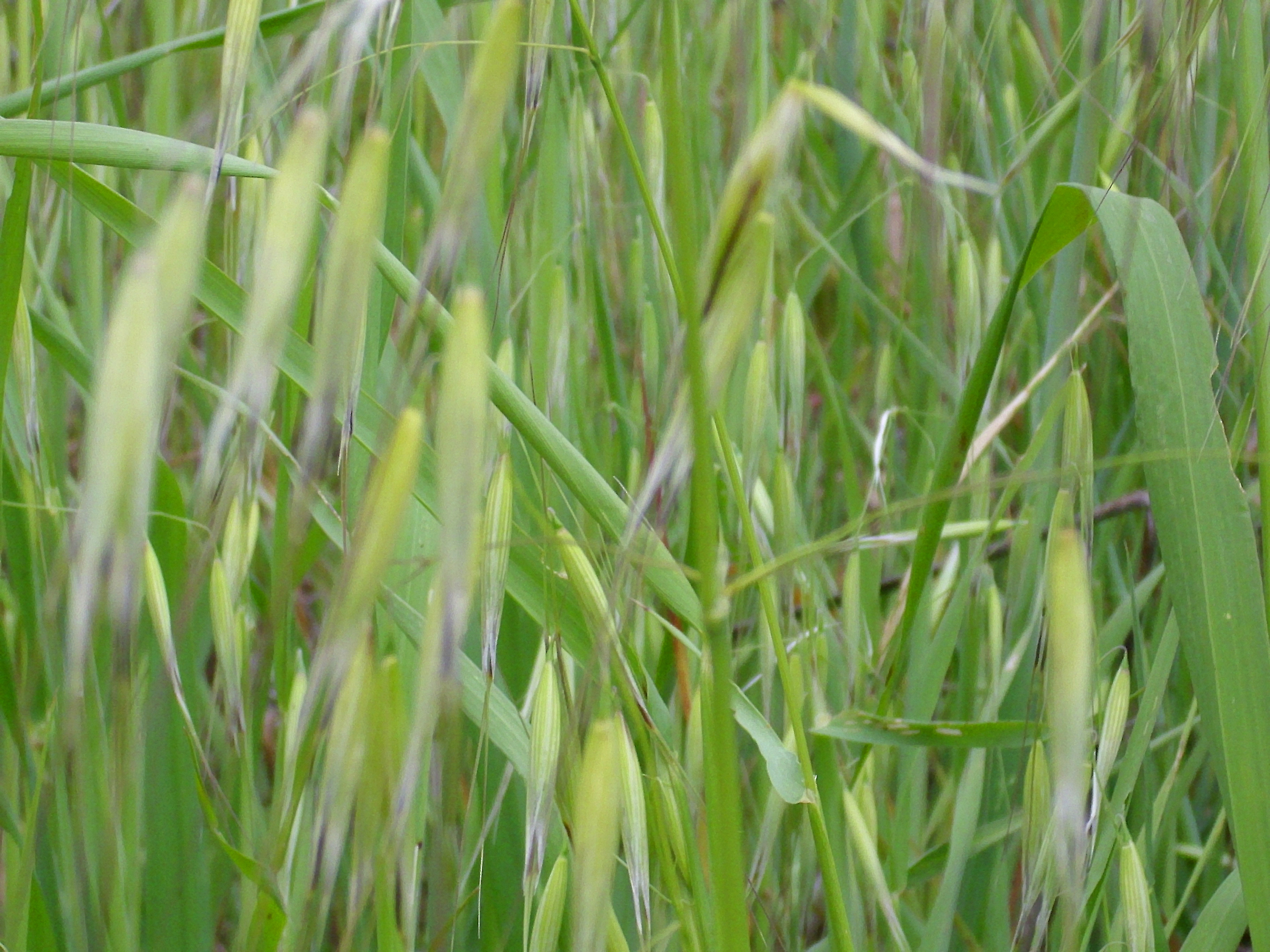 Avena sterilis spikes close up, Dehesa Boyal de Puertollano, Spain